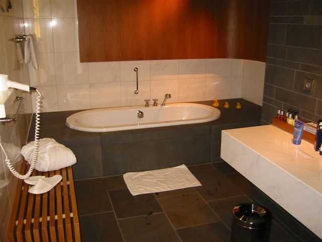 Lufthansa: First class airport lounge bathroom at Flughafen Frankfurt am Main, Germany.